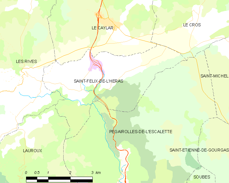 Map commune FR insee code 34253.png - Saint-Félix-de-l'Héras